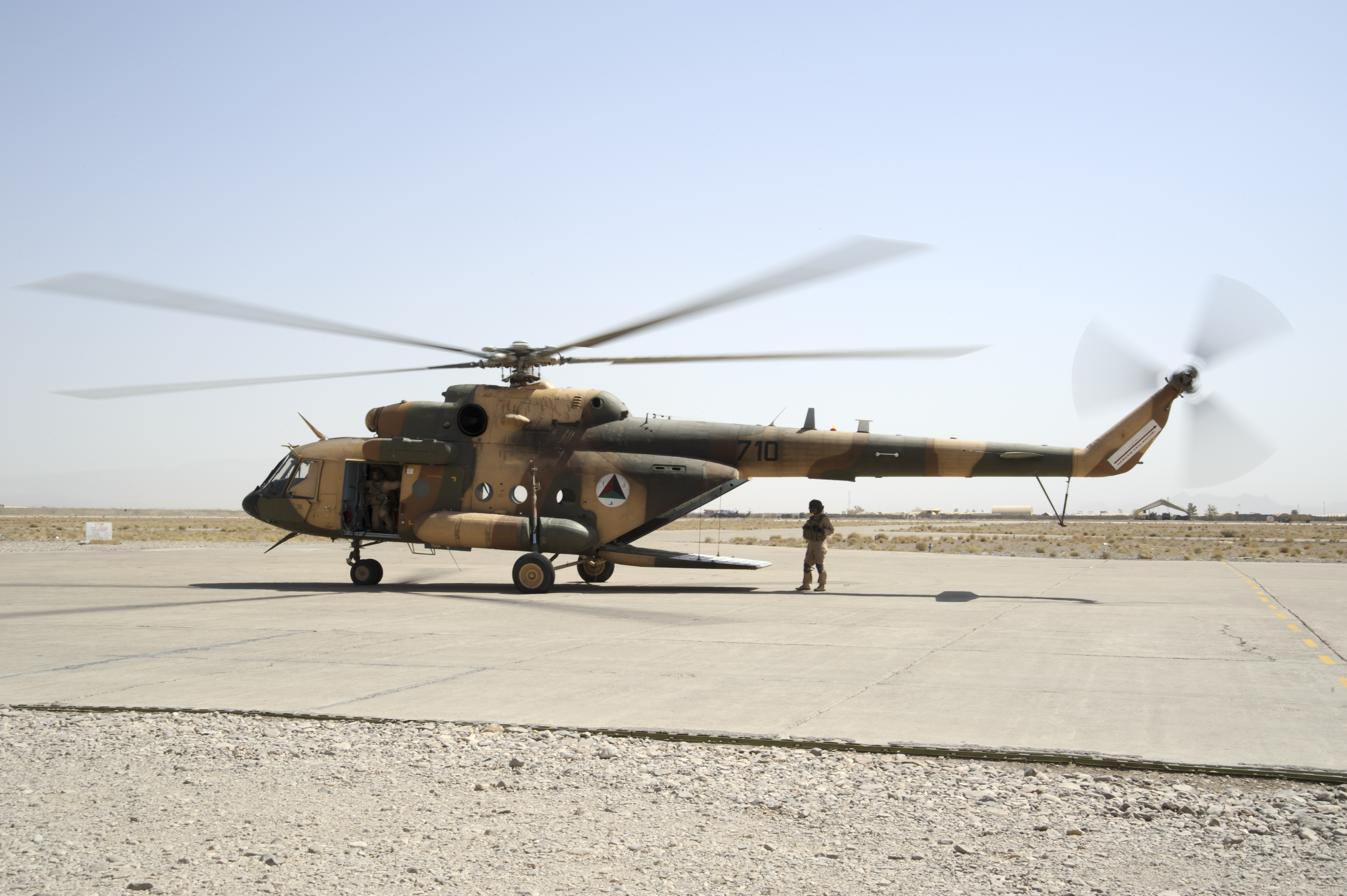 An Afghan Air Force Mi-17 helicopter sits on the ramp at Shindand Air Base, Shindand, Afghanistan, Aug. 29, 2011. The helicopter was preparing for a flight around the air base. 838th AEAG airmen are working to help Afghans establish their own independent operationally-capable AAF. (Photo ID: 450444)